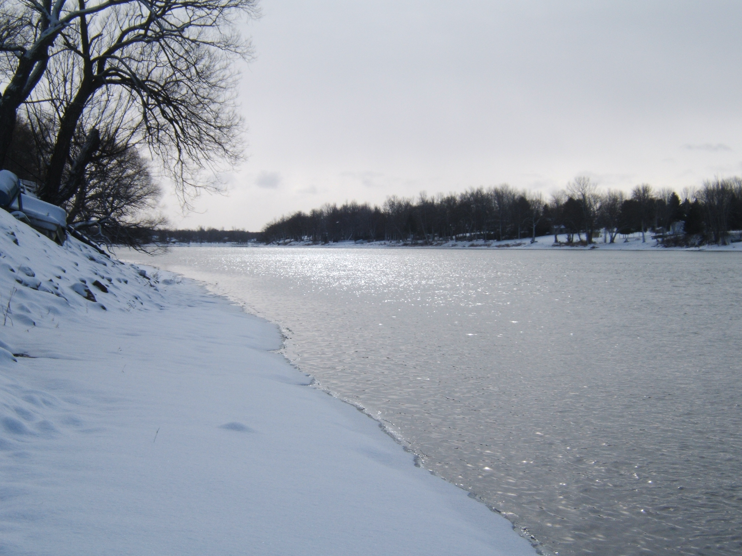 Richelieu River at the beginning of winter, at Sainte-Victoire-de-Sorel.